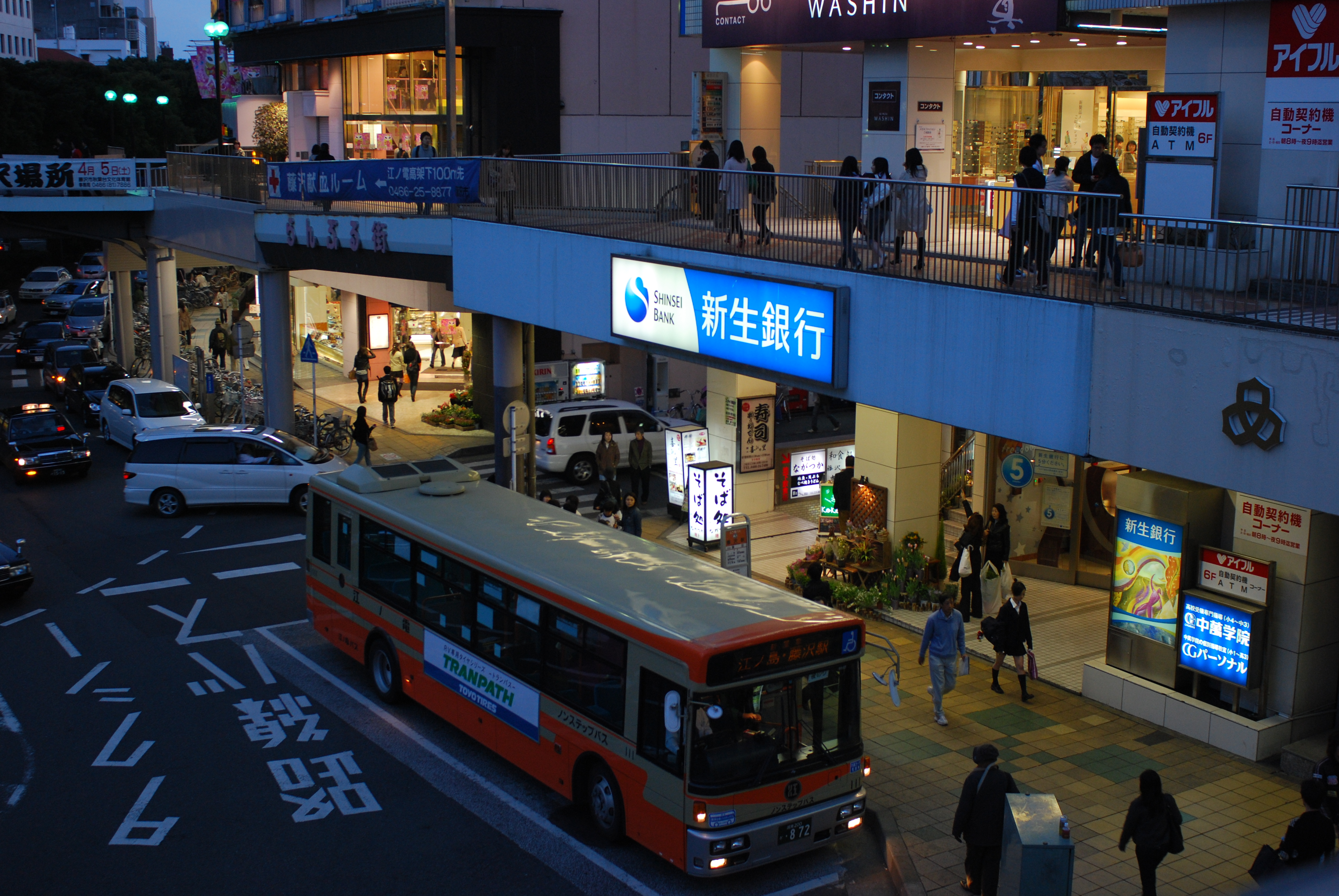 shops near the Fujisawa Station